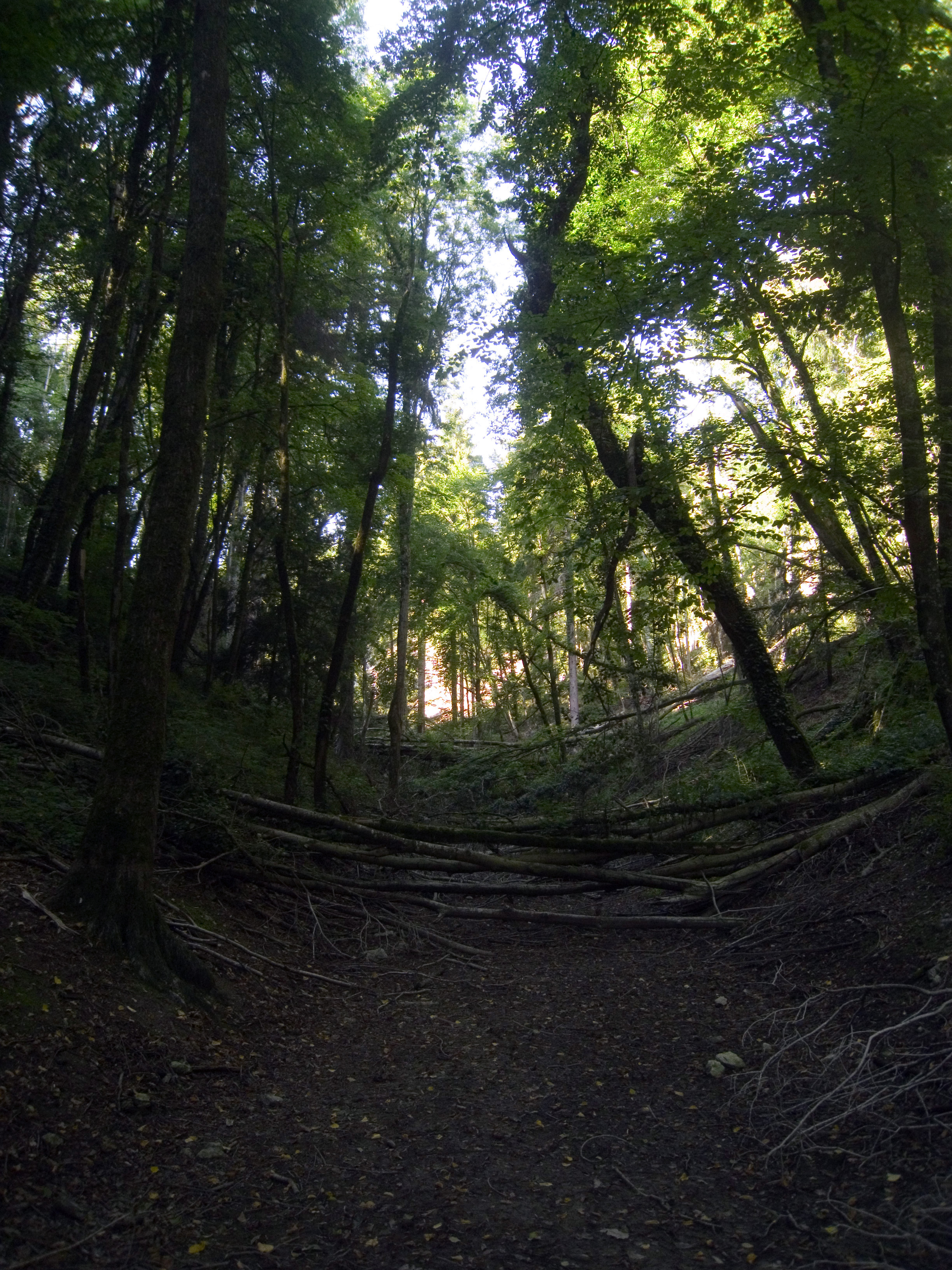 Part of the Entreroches canal, an unsuccessful attempt to link Lake Geneva to Lake Neuchâtel.